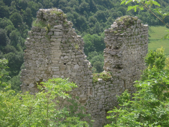 Fortress Zvečaj